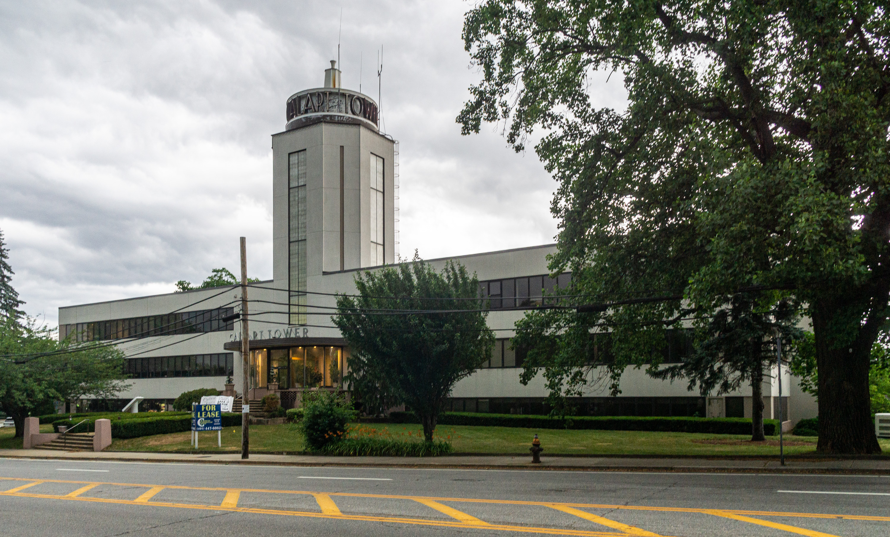 Cal-Art Tower, an Art Deco building in Providence Rhode Island. California Artificial Flower Company. Built 1939.